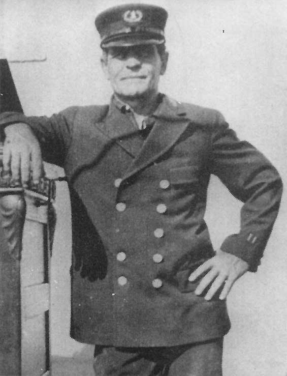 Willard Dwight Miller. Halftone reproduction of a photograph, showing him in the uniform of the U.S. Lighthouse Service, in which he served after leaving the U.S. Navy in 1906. Willard D. Miller had received the Medal of Honor for his role in the 11 May 1898 telegraph cable cutting operation off Cienfuegos, Cuba. Courtesy of the Army Museum, Halifax Citadel, Halifax, Nova Scotia, Canada, 1971.